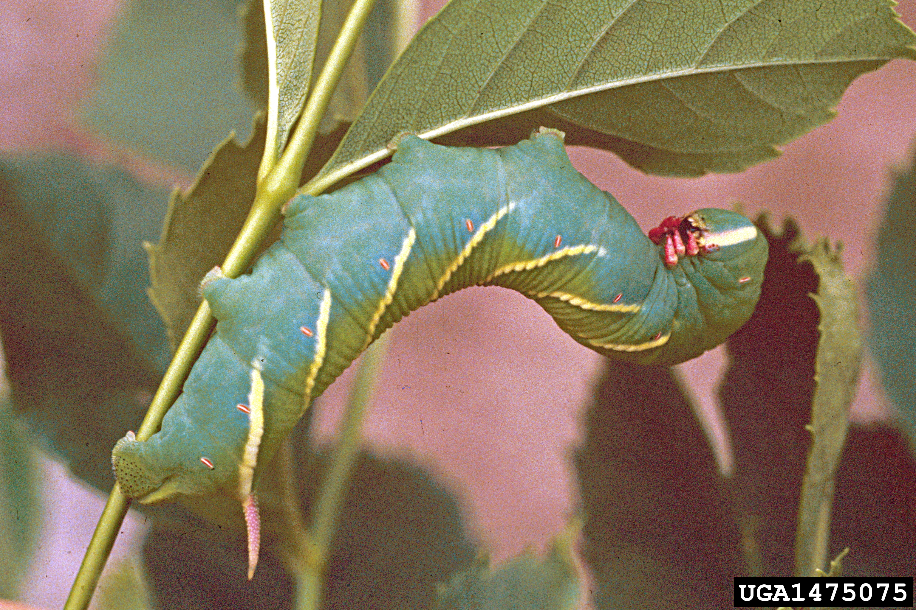 Sphinx chersis, larva